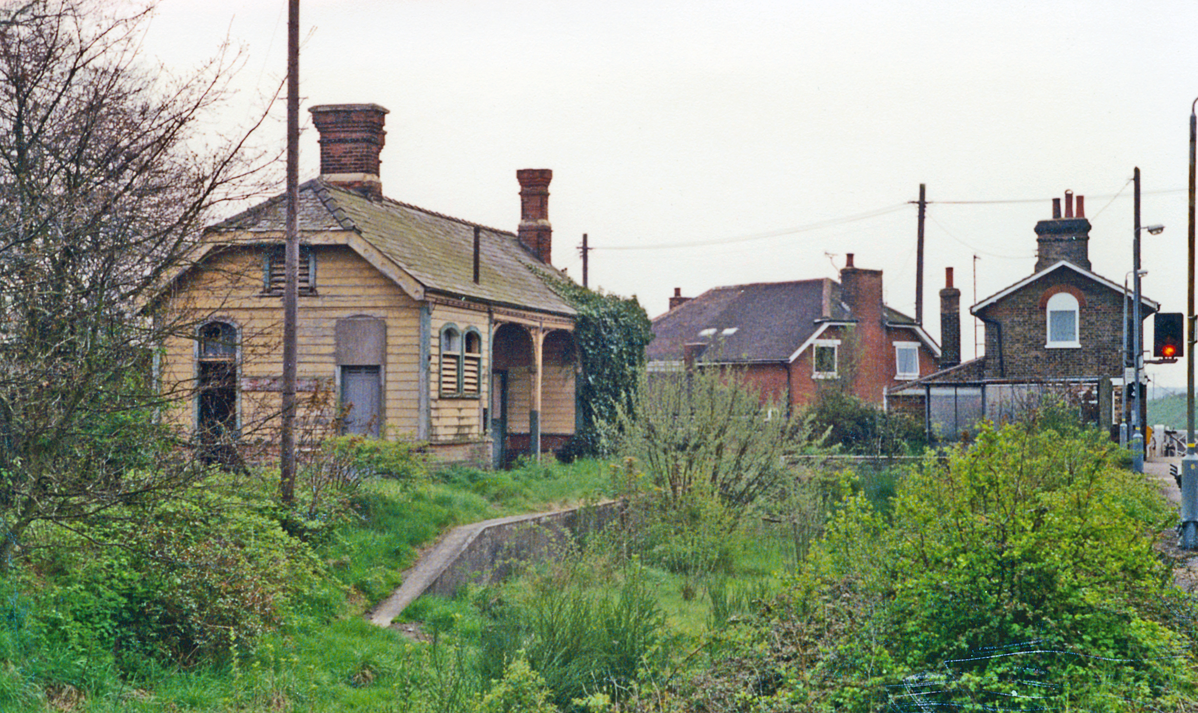 Westerfield (old) station, 1988. View westward, towards Ipswich: ex-GER Ipswich - Felixstowe line. The branch to Felixstowe from the East Suffolk (Ipswich - Lowestoft/Great Yarmouth) line originally operated independently until 1877 from a terminus her on the left; the present (ex-GER) station is on the right.